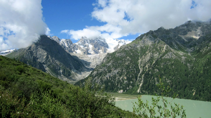 Chola Mountain ，Photoed in Xinluhai scenic resort